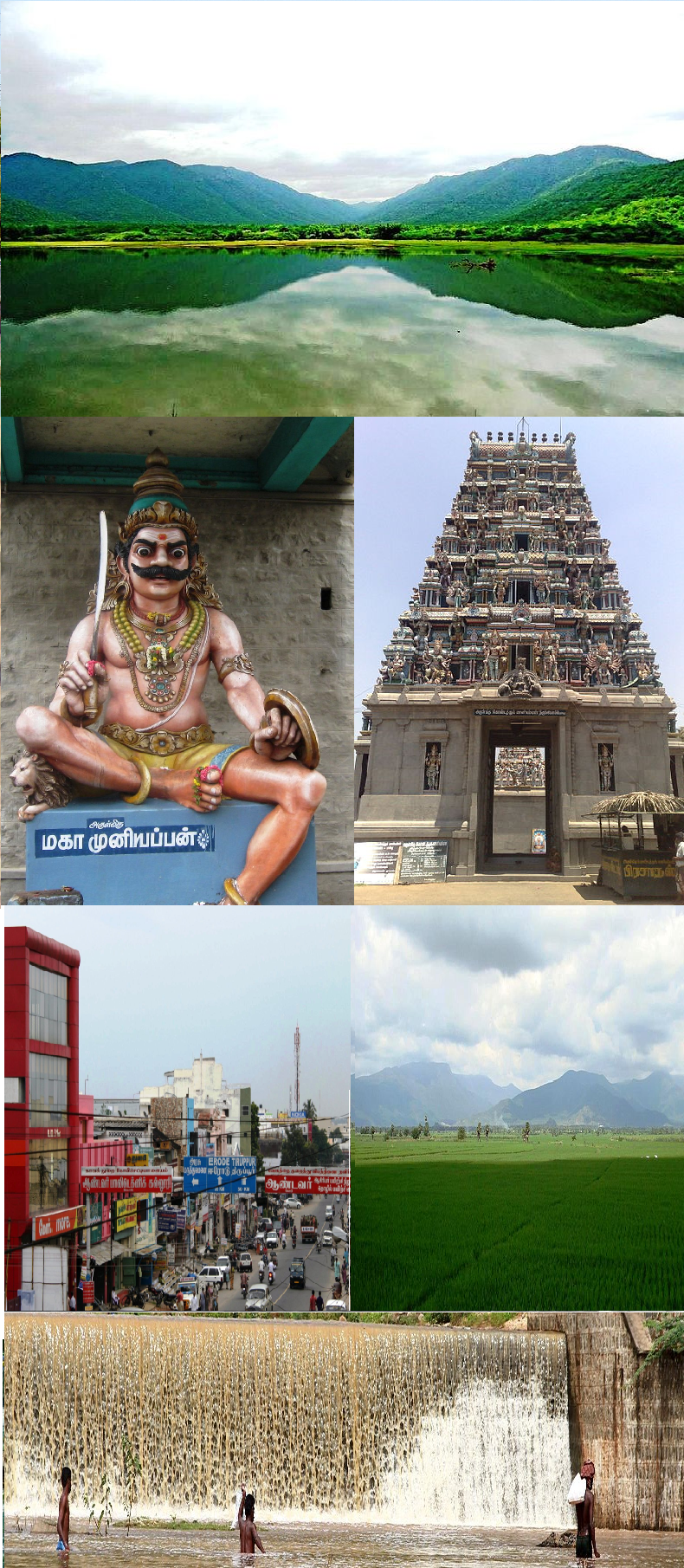 Collage of Gobichettipalayam